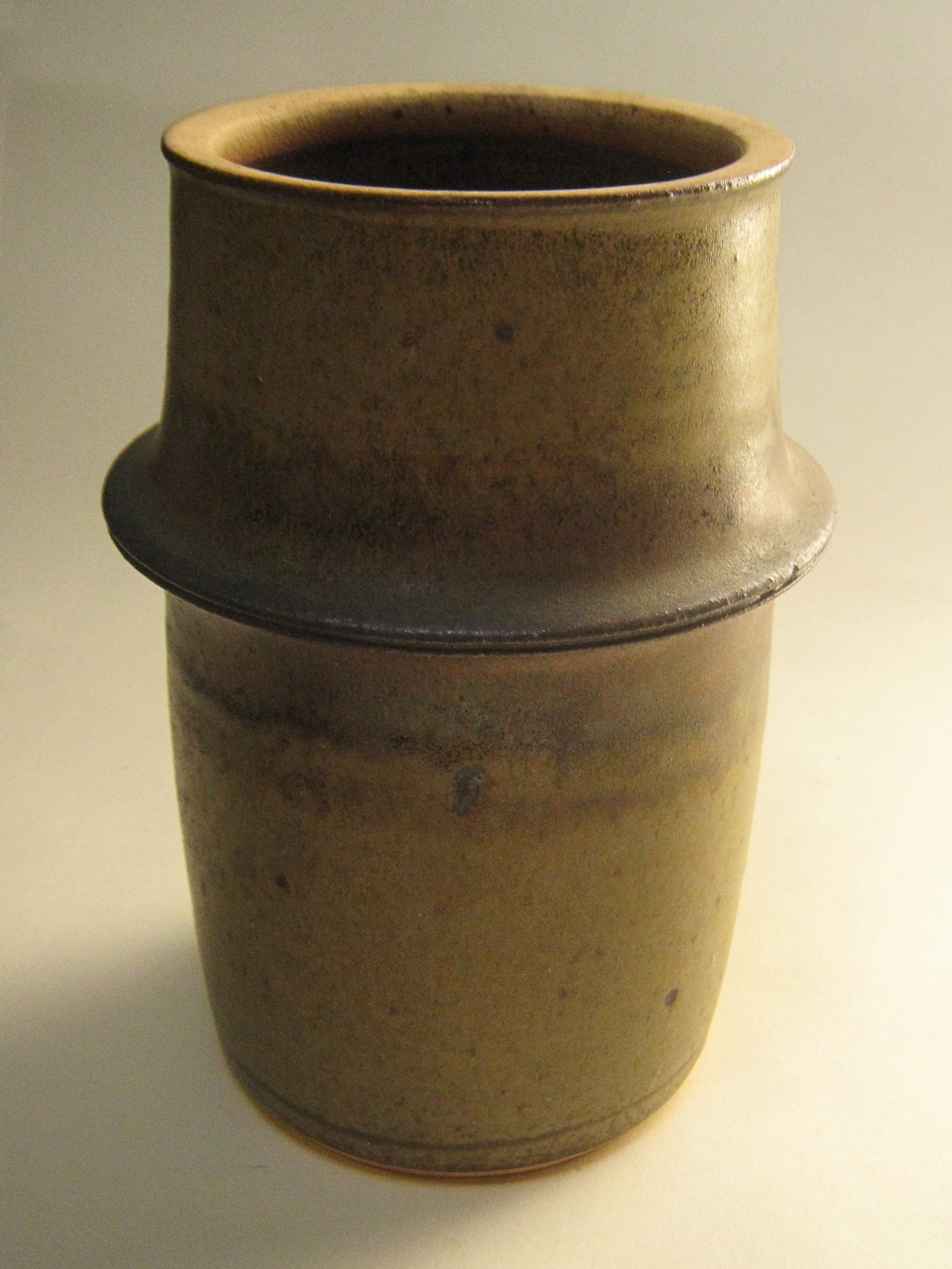 Pottery jar with ridge by Ian Sprague; photographed in a private collection at Enfield Victoria